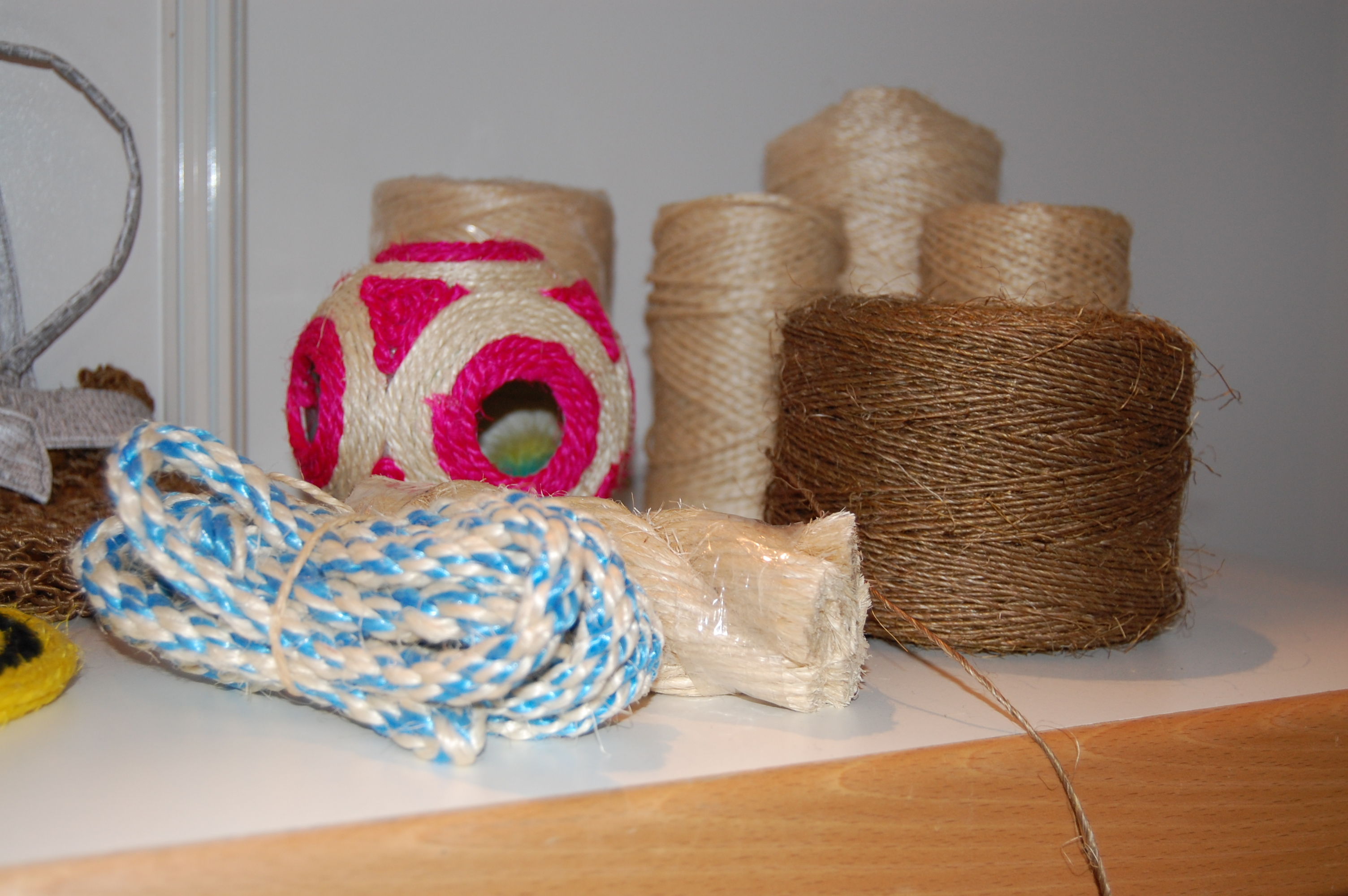 Products made by sisal fibres